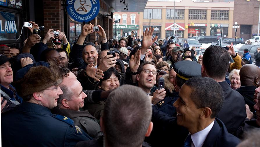 President Barack Obama is welcomed by an enthusiastic crowd upon his arrival in the Byward Market, Ottawa, Canada.